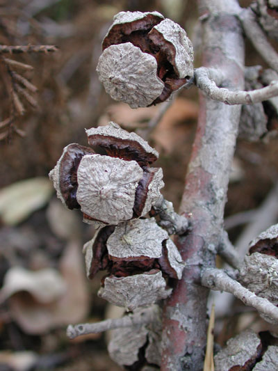 Mature cones of Cupressus glabra (syn. Cupressus arizonica var. glabra) growing along Pinto Creek, Gila County, Arizona, USA.